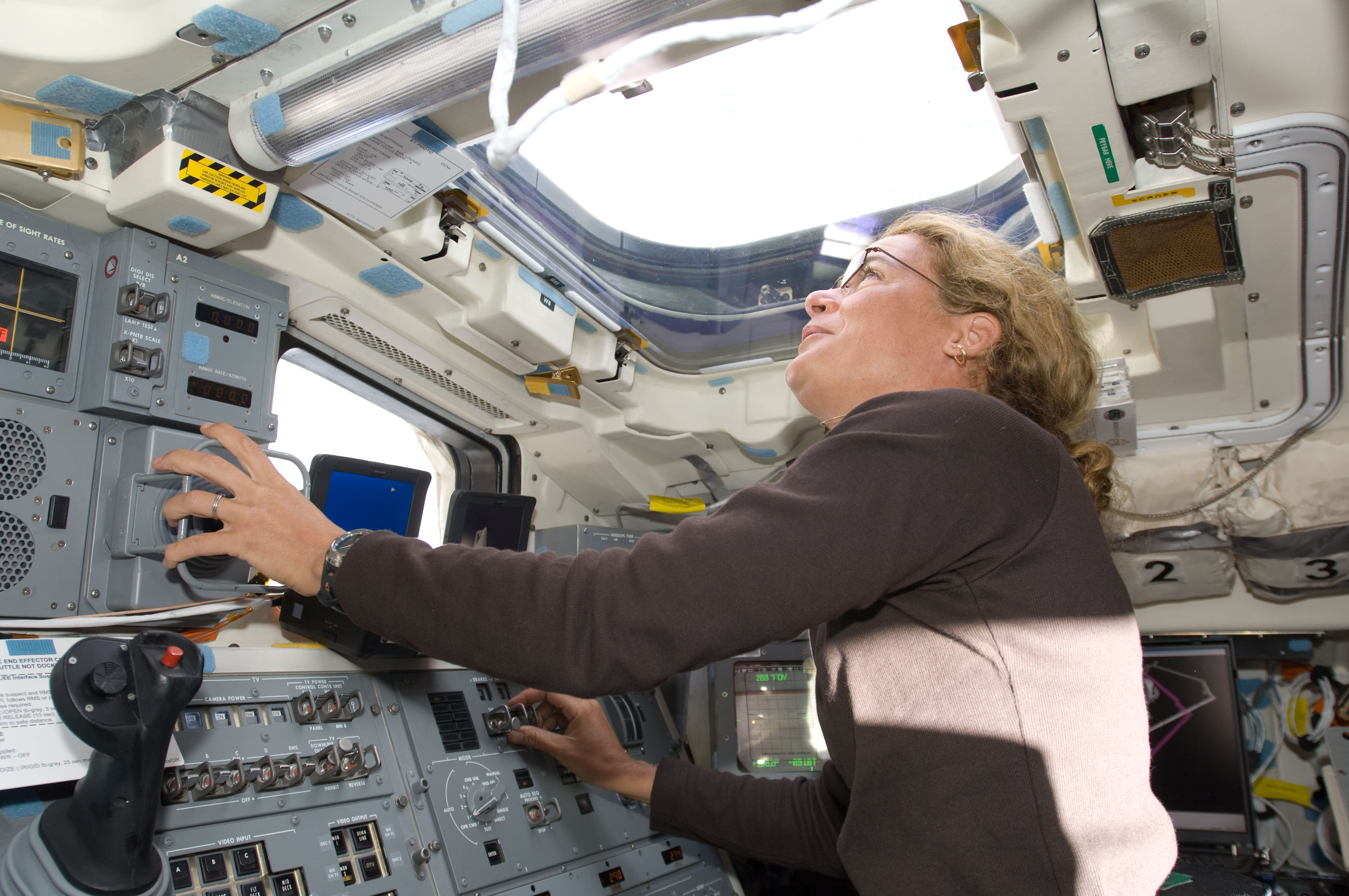 Canadian Space Agency astronaut Julie Payette, STS-127 mission specialist, looks through an overhead window while operating controls on the aft flight deck of Space Shuttle Endeavour during flight day two activities.